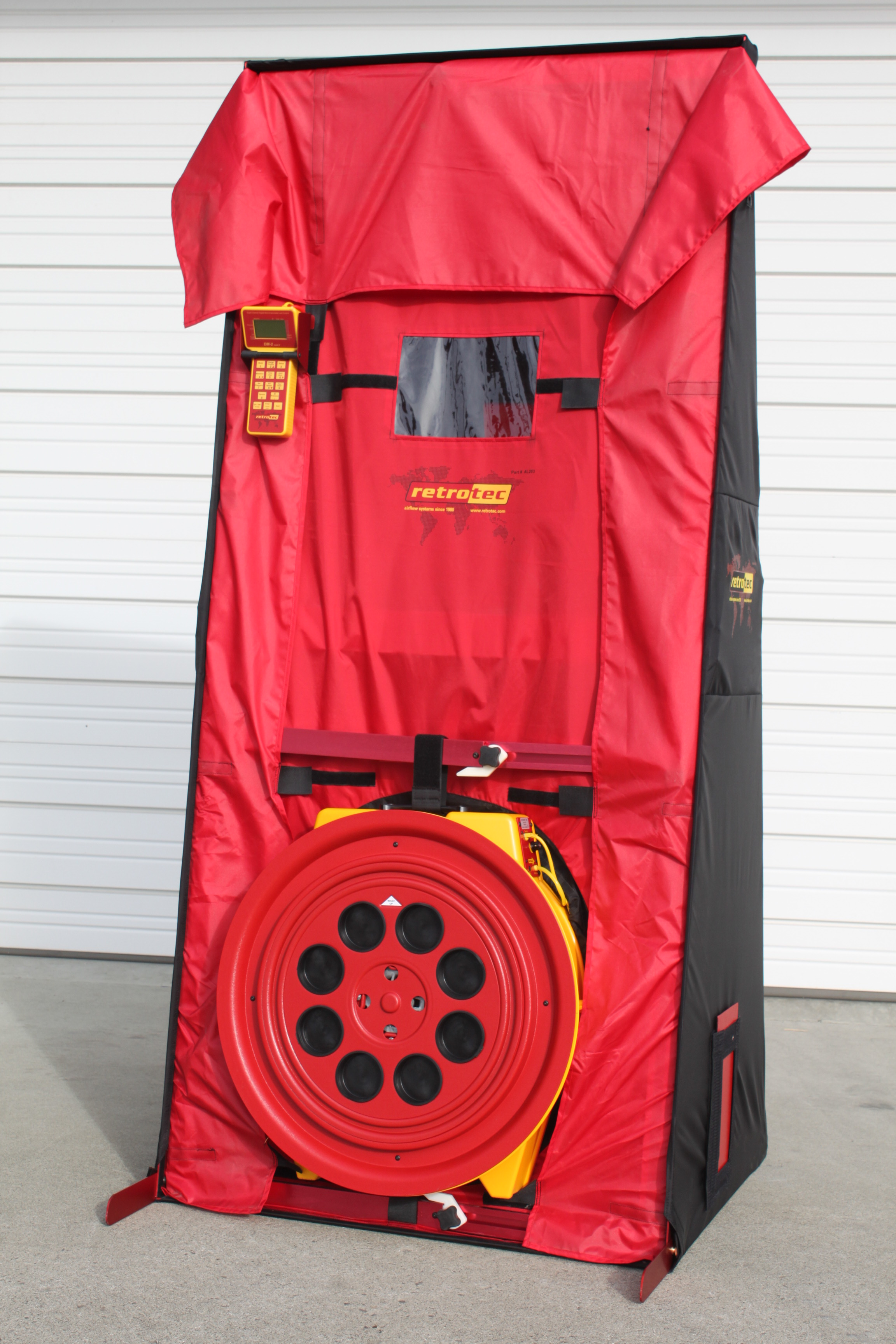 The Model 1000 blower door system from Retrotec is the newest blower door available. It is suitable for residential, commercial and industrial testing. This picture displays the door fan system in a house simulator tent.